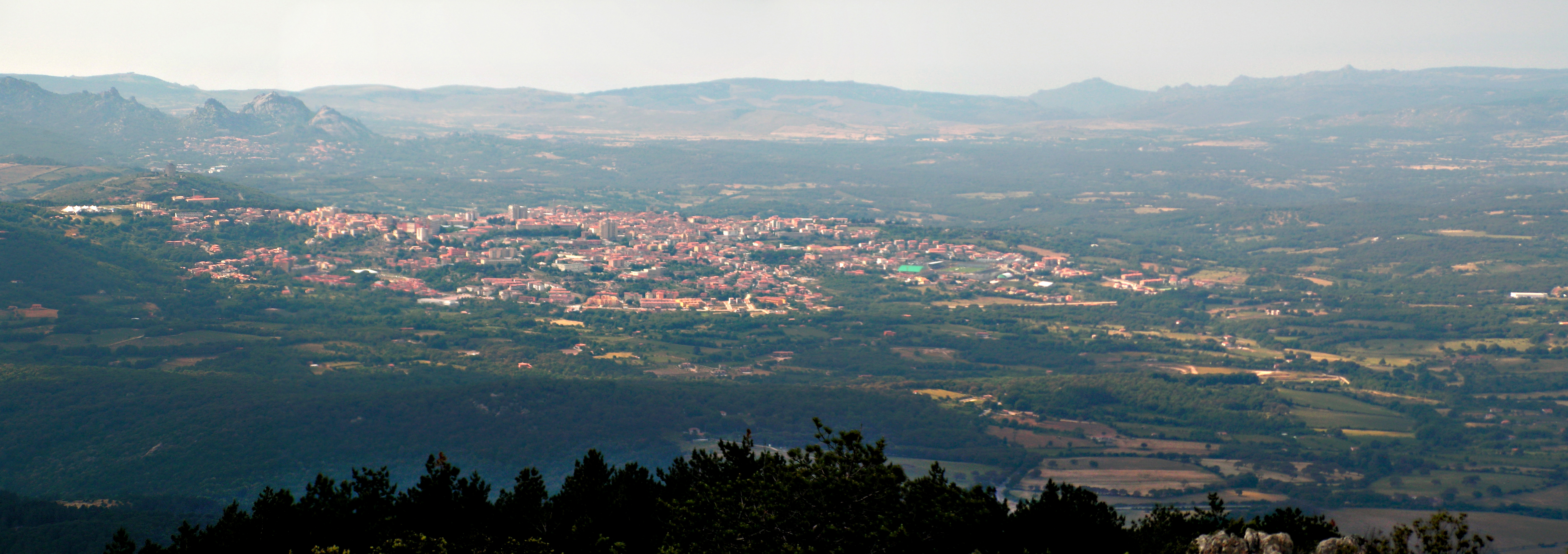 Tempio Pausania (provice Olbia-Tempio, Sardinia) from Monte Limbara